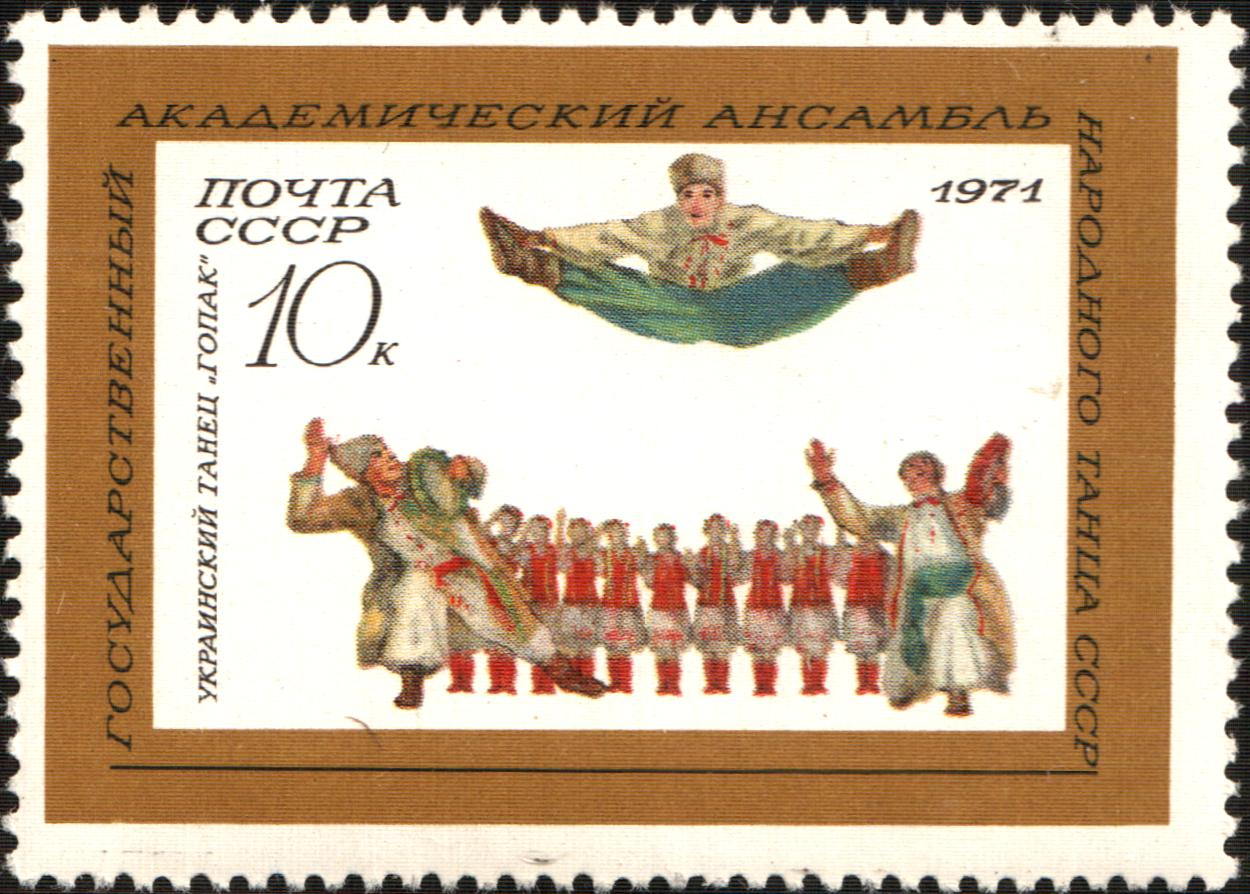 USSR stampː Ukrainian Hopak Dance (Dancer Leaping). Seriesː Ensemble of Folk Dance of Igor Moiseyev (Founded 1937.02.10)